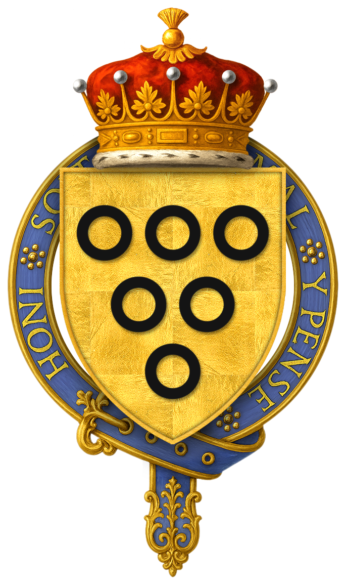 Garter-encircled shield of arms of Hugh Lowther, 5th Earl of Lonsdale, KG, as displayed on his Order of the Garter stall plate in St. George's Chapel.